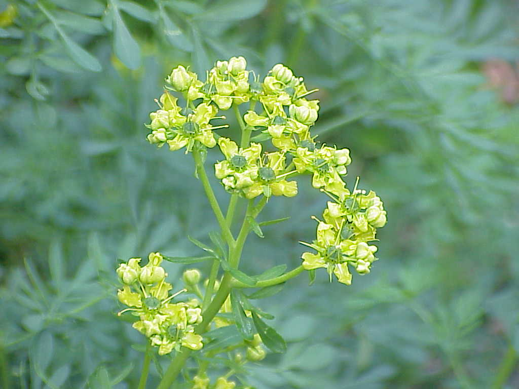 Species: Ruta graveolens Family: Rutaceae Image No. 9